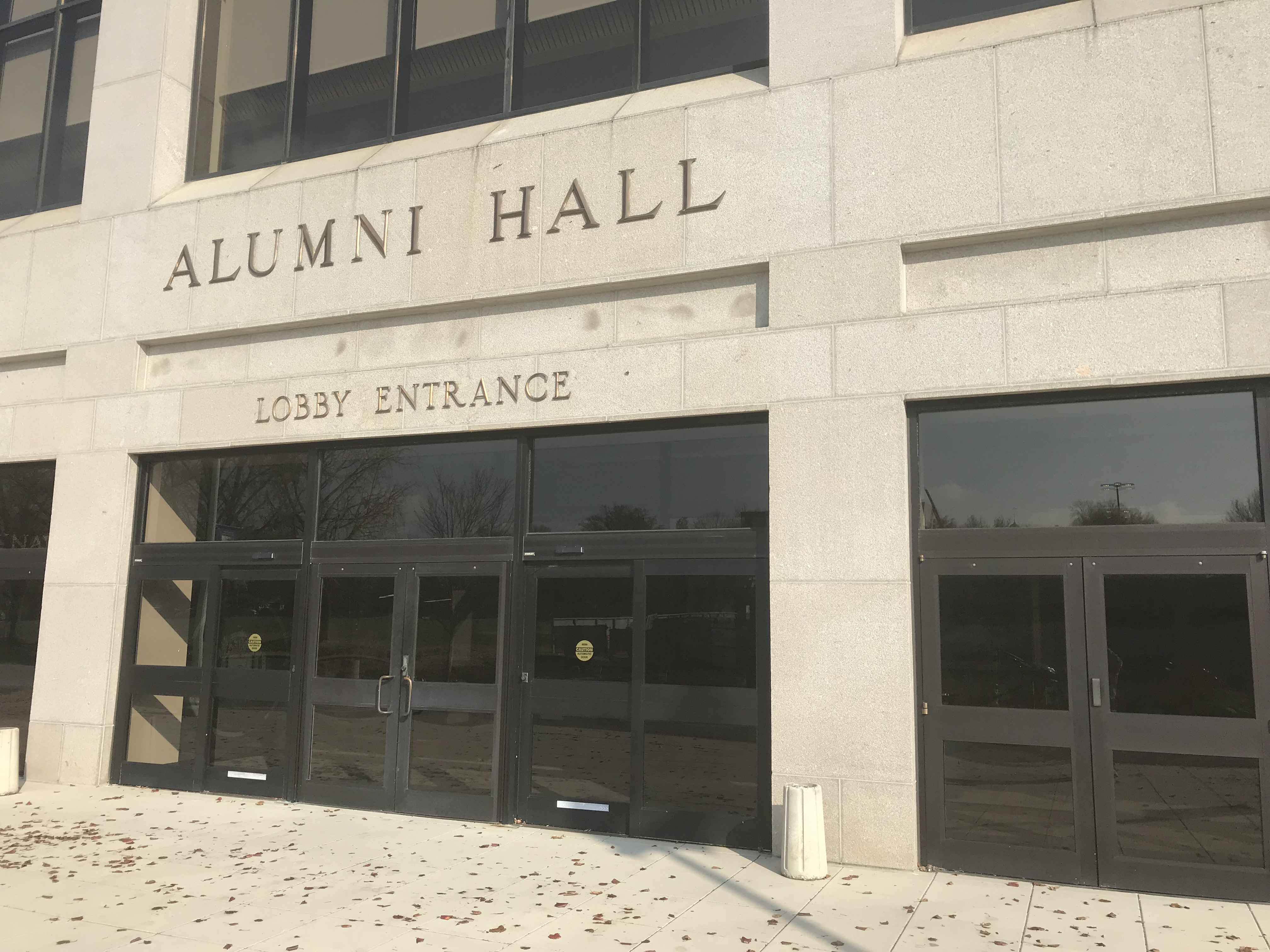 The entrance to Alumni Hall, home of Navy Midshipmen basketball.